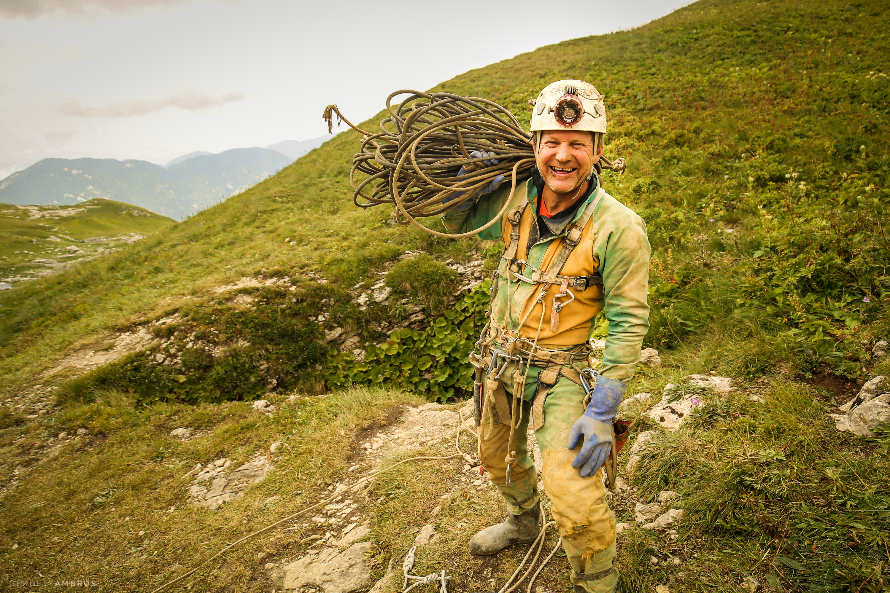 Yuriy Kasyan at the entrance of the Krubera-Voronya cave.